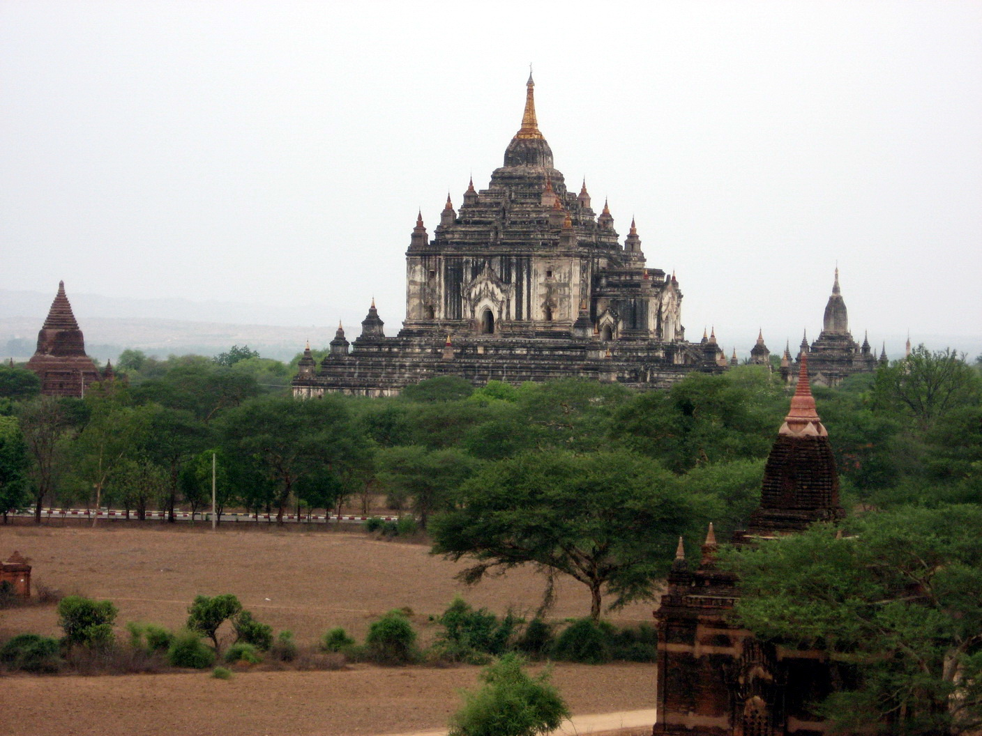 That Byin Nyu Temple, Bagan, Myanmar - Burma